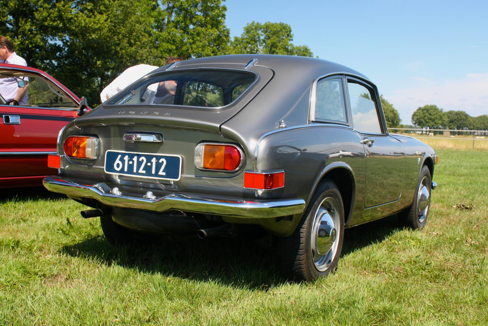 Honda S800 Coupé, rear view